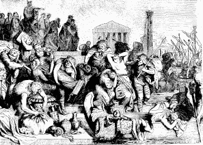 Vandals plundering